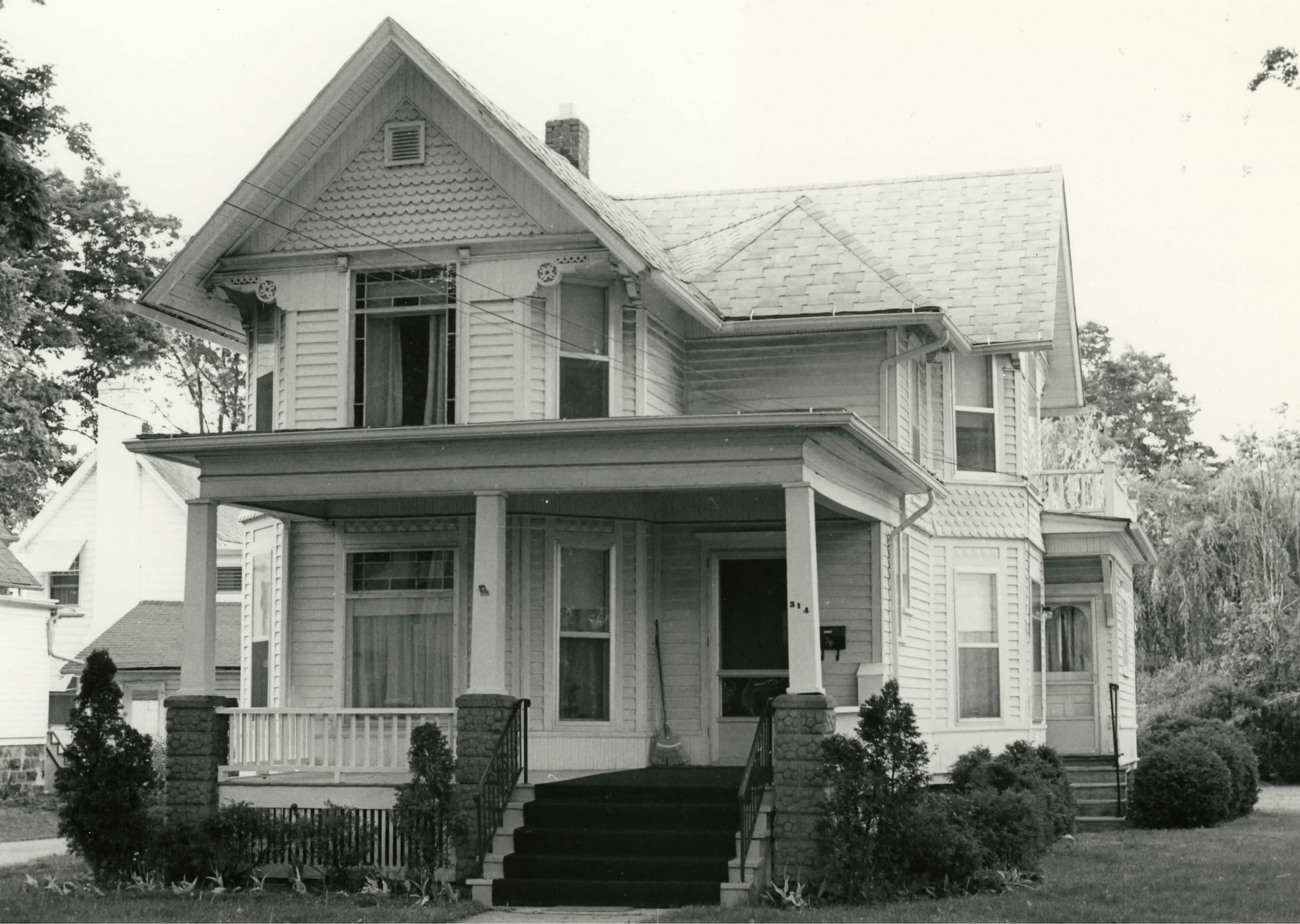 314 West King Street Owosso MI